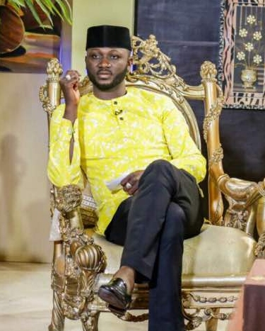 Uzee Usman on set for Taurarin Zamani